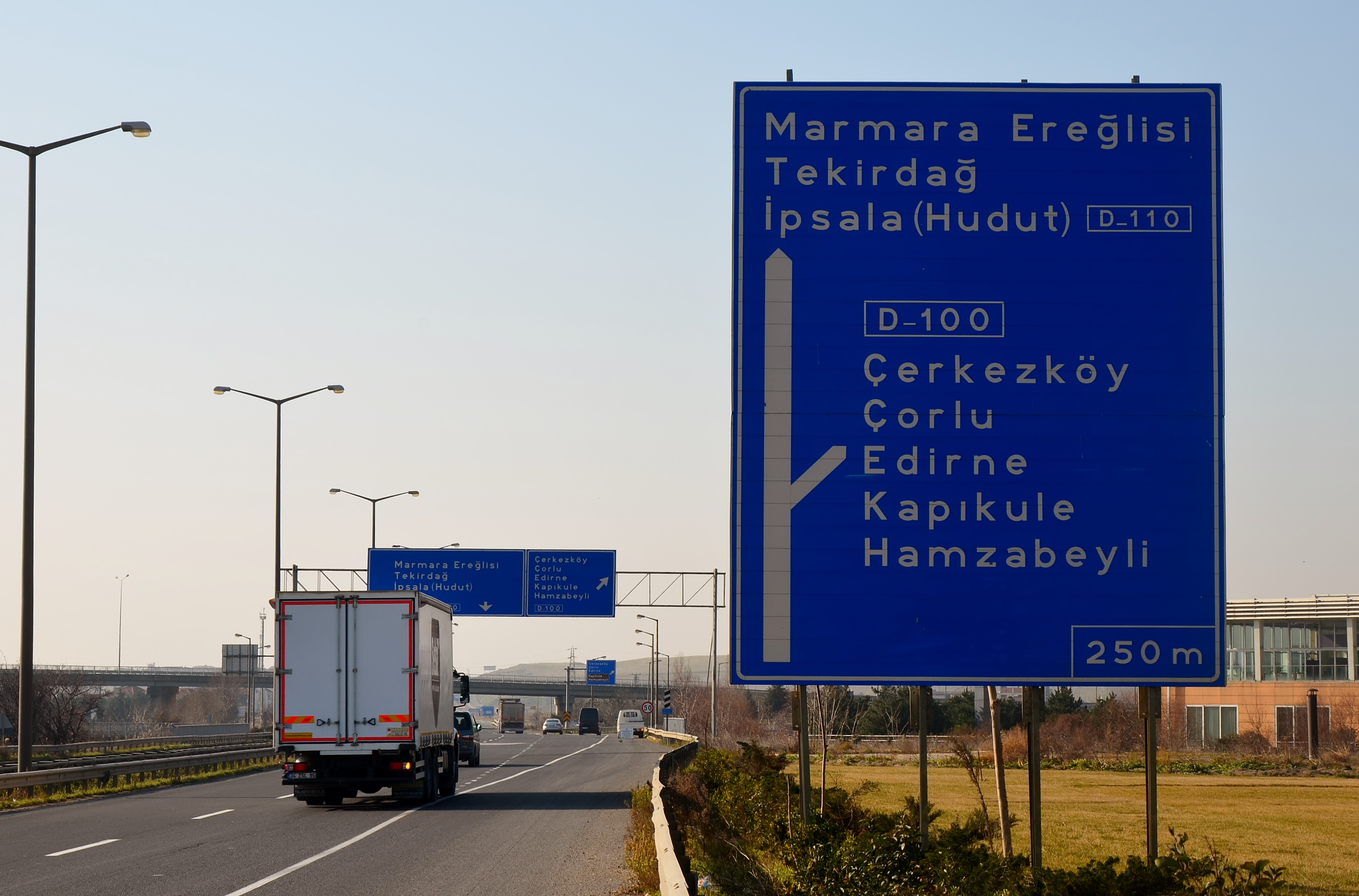 Road sign at Kınalı Junction in Silivri, Istanbul